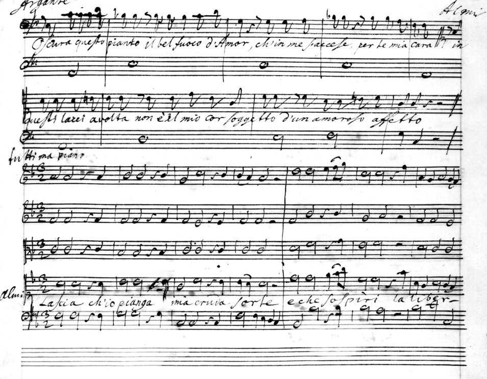 First bars of Lascia ch'io pianga, air from the second act of Rinaldo.